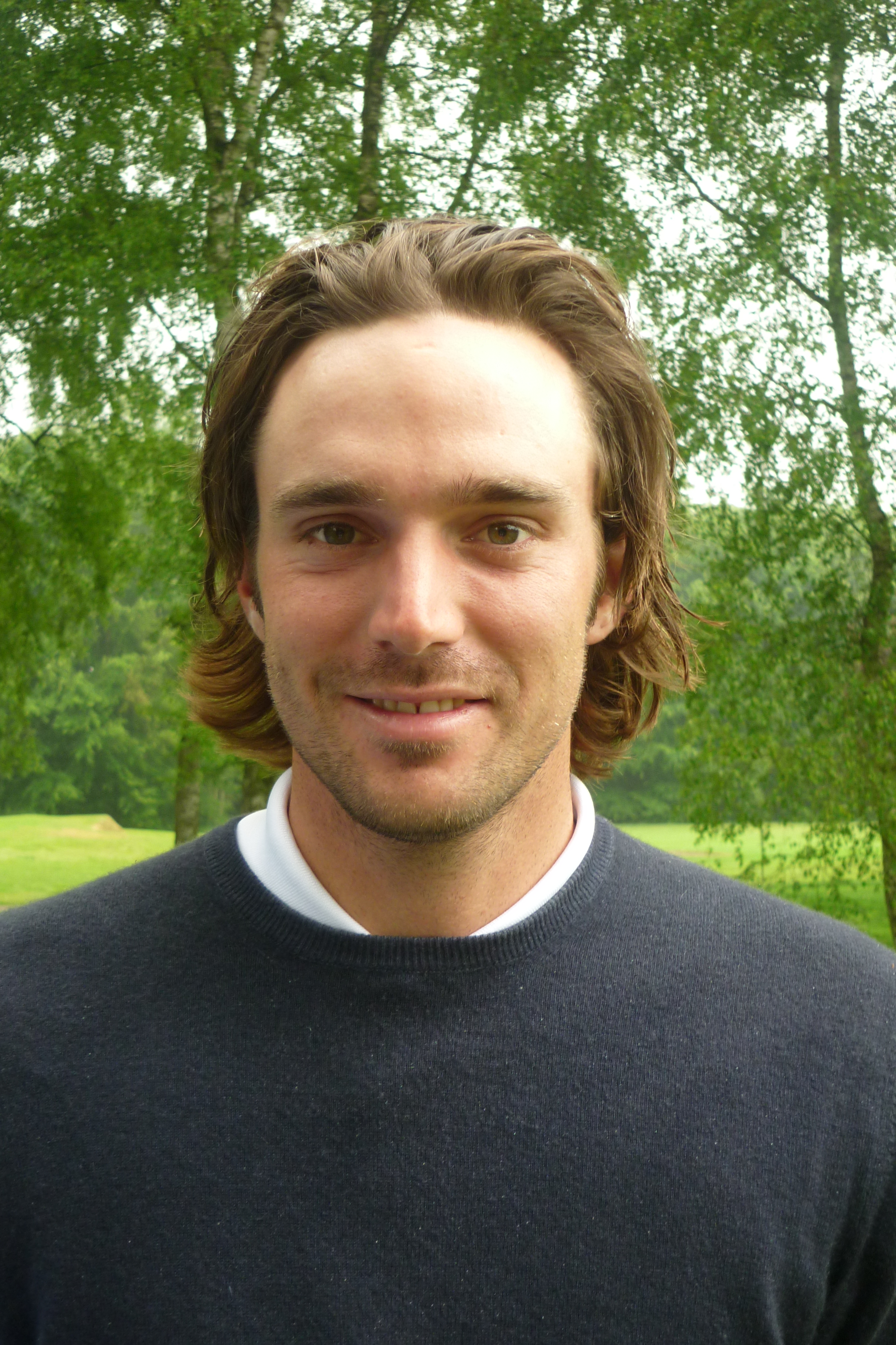 Nicolas Meitinger at Telenet Trophy at Rinkven GC